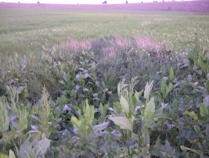 Gurio Lamanna - Hole through which water flows under the ground